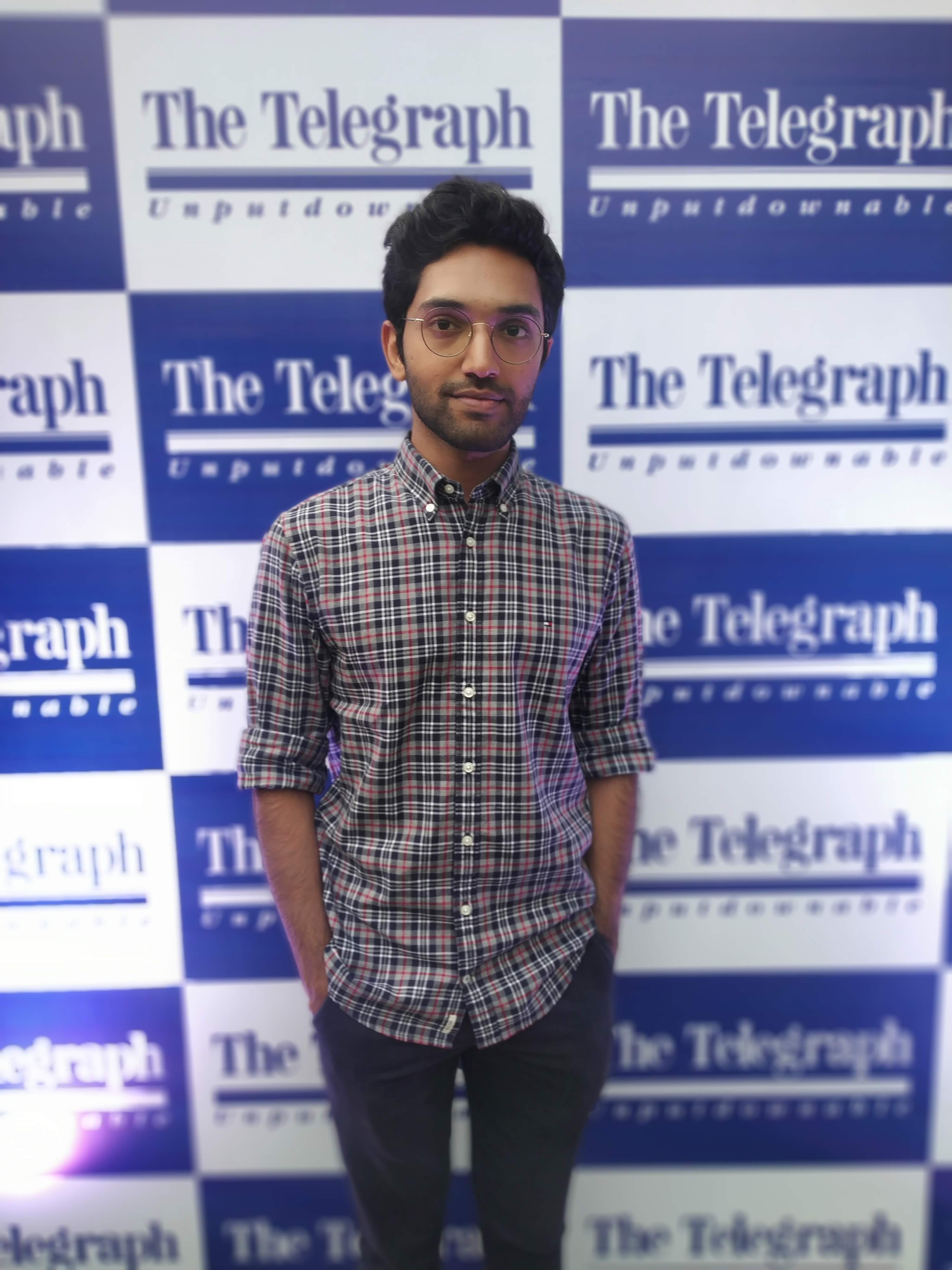 Manu Pillai at Kolkata literary meet